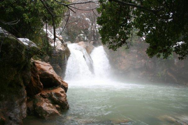 Kharkhar river, Arabsalim, south lebanon